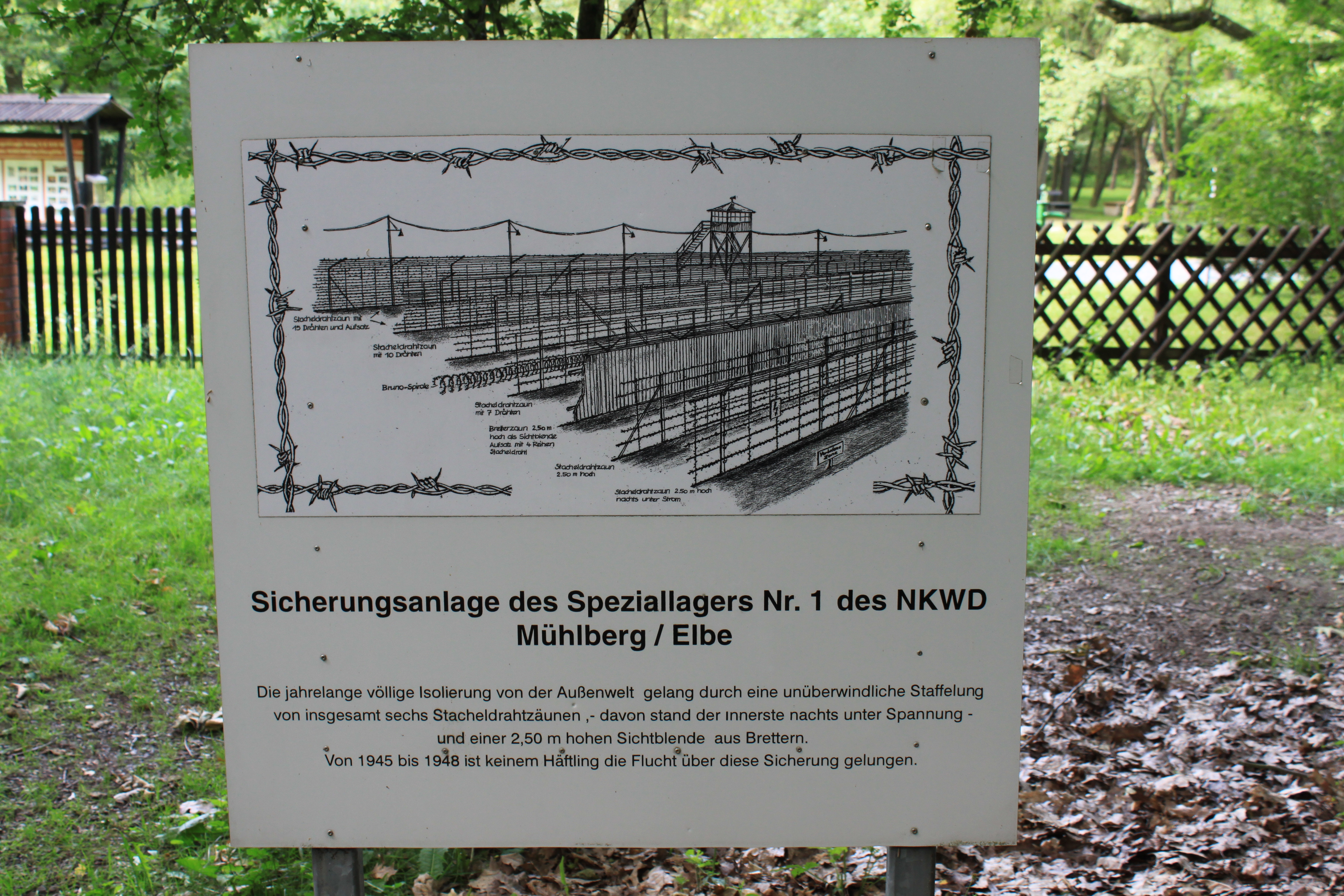 Memorial of the Stalag IVB/Speziallager Nr. 1 Mühlberg/Elbe